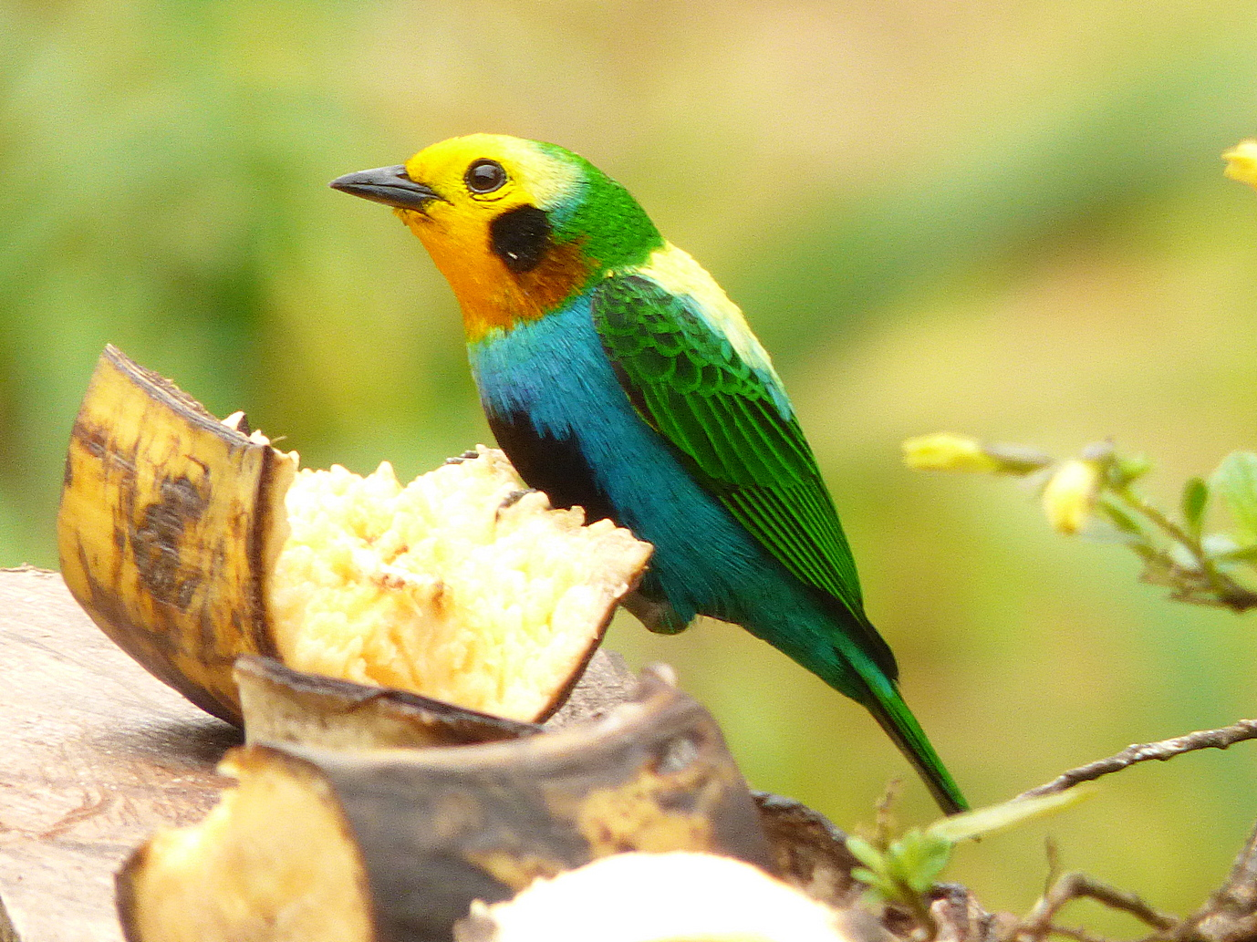 Picture of male Multicolored Tanager in Colombia